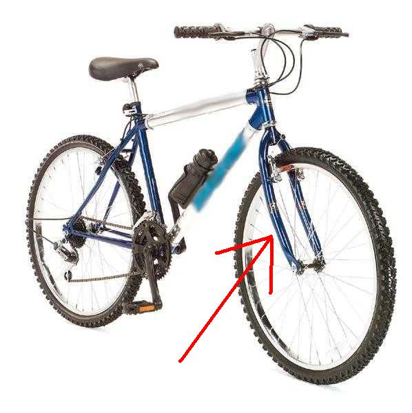 Bicycle with fork emphasized.